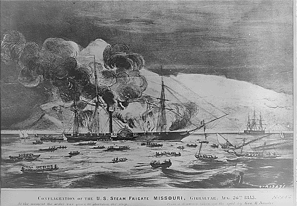 Drawing of the USS Missouri on fire at Gibraltar, Aug. 26, 1843